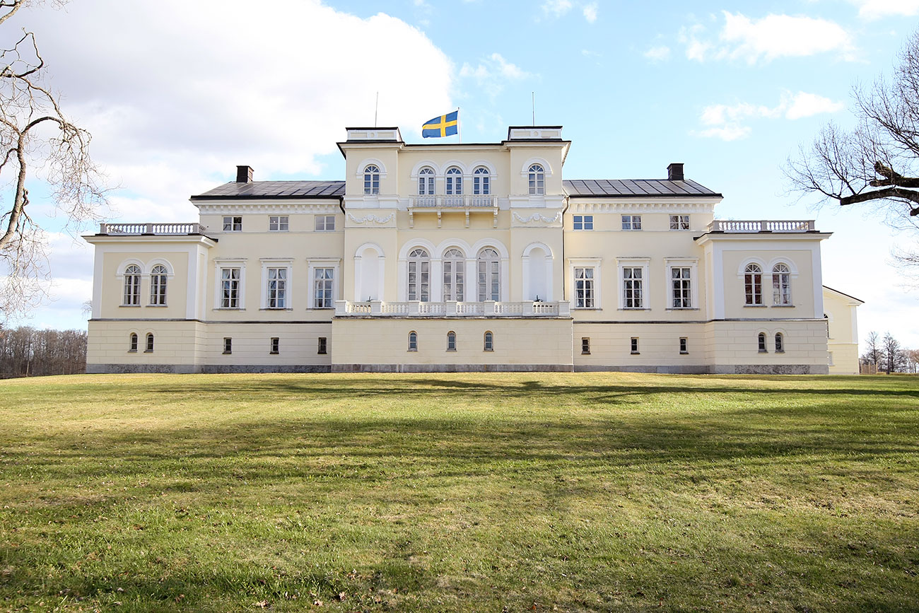 Ryholms herrgård, sida mot sjön